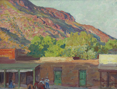 Adobe Town by Maynard Dixon